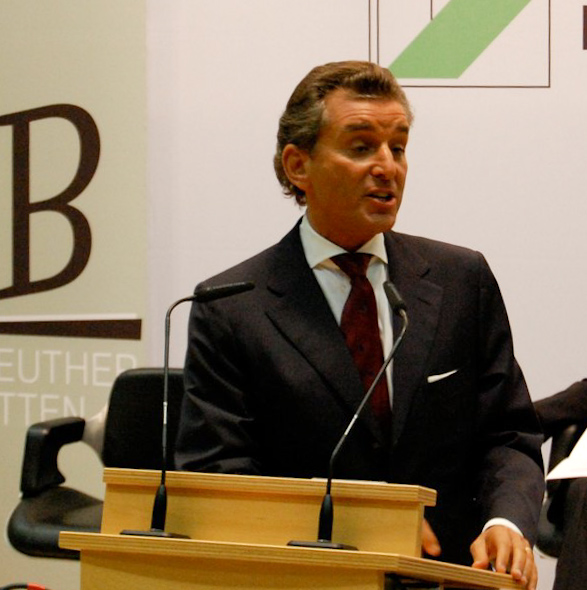 Michel Friedman, German lawyer, former CDU politician and talk show host.